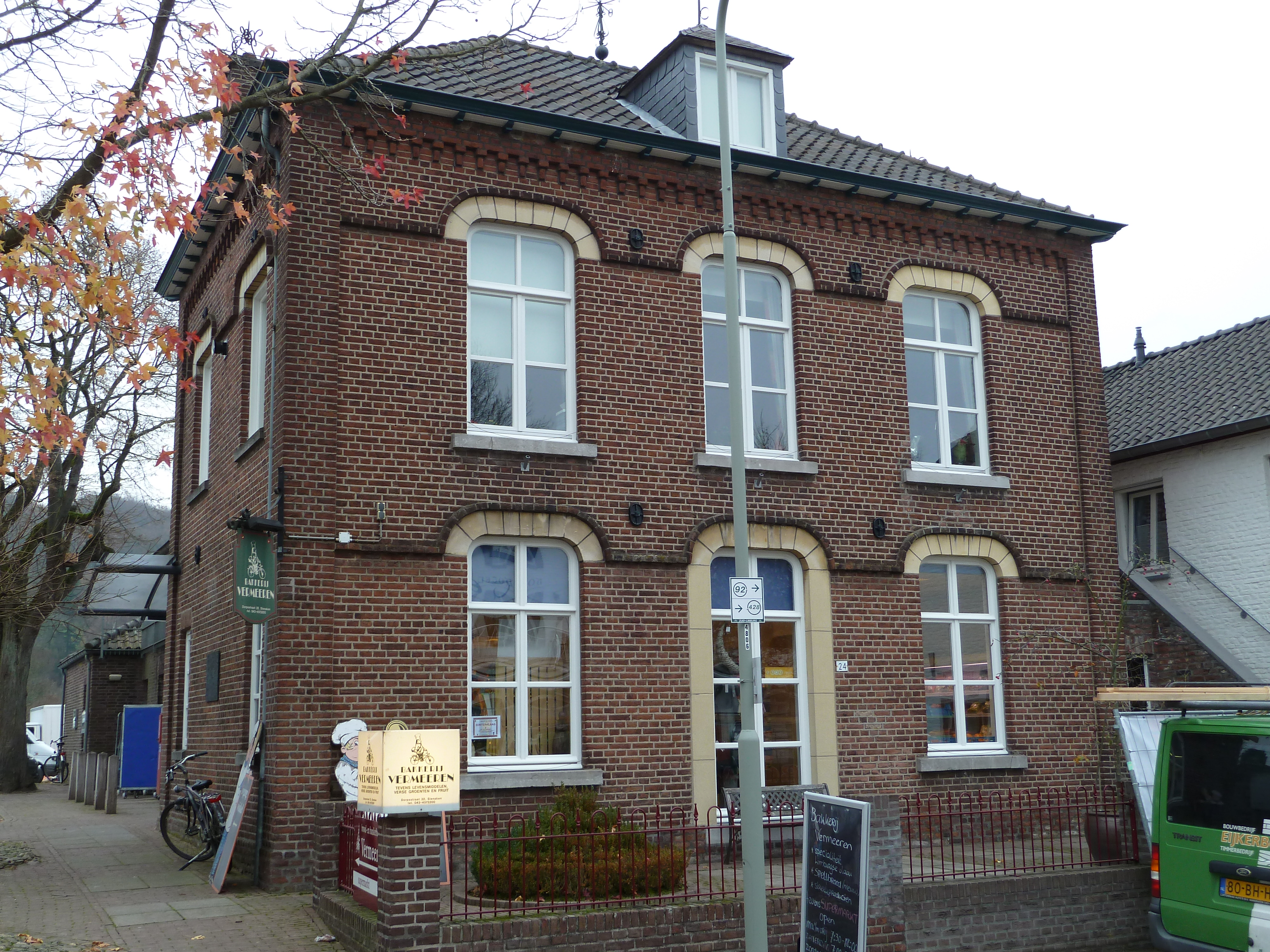 Dorpsstraat 22, 6277 NE Slenaken, Limburg, the Netherlands